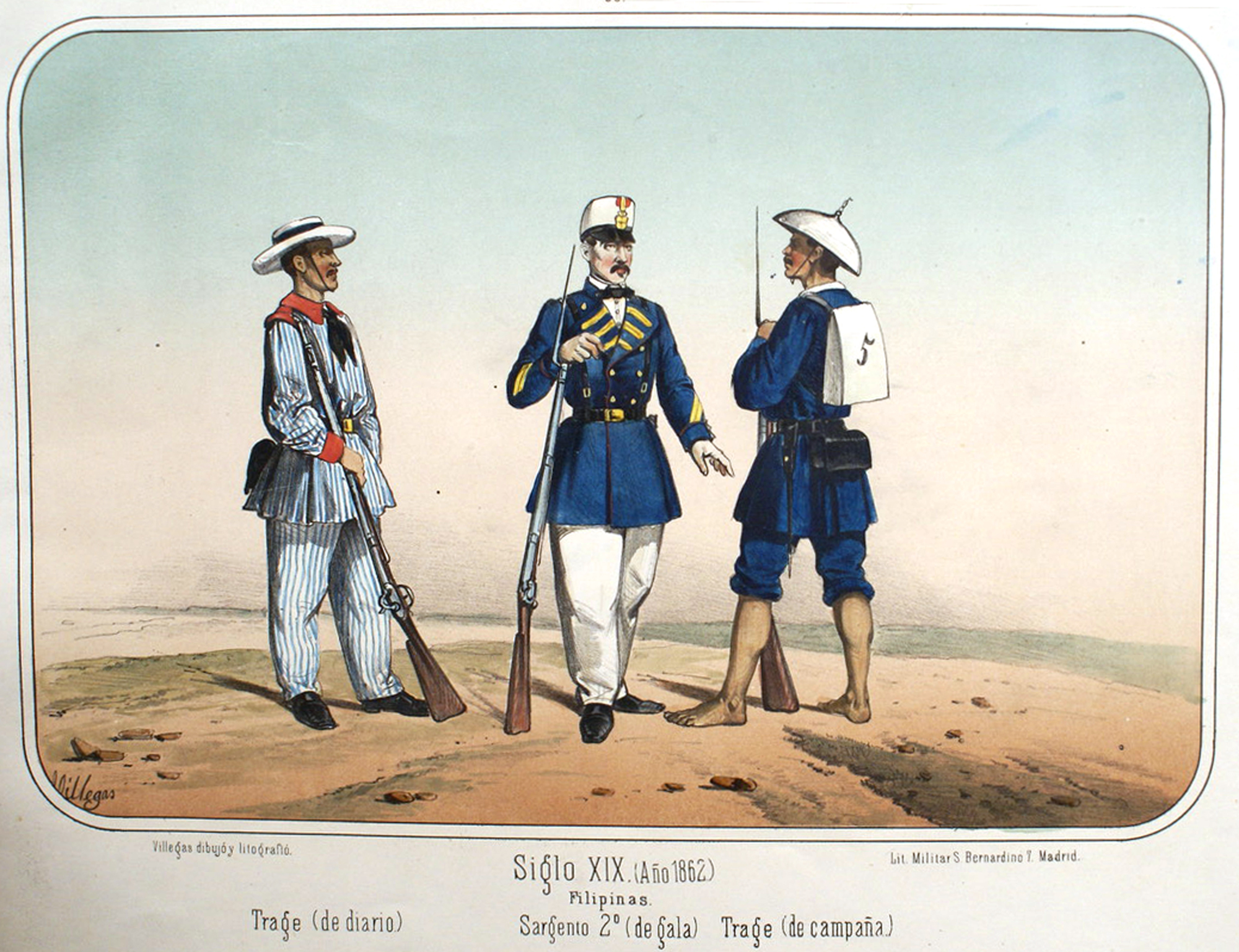 Año 1862 - Filipinas Trage de Diario Sargento 2º de Gala Trage de Campaña